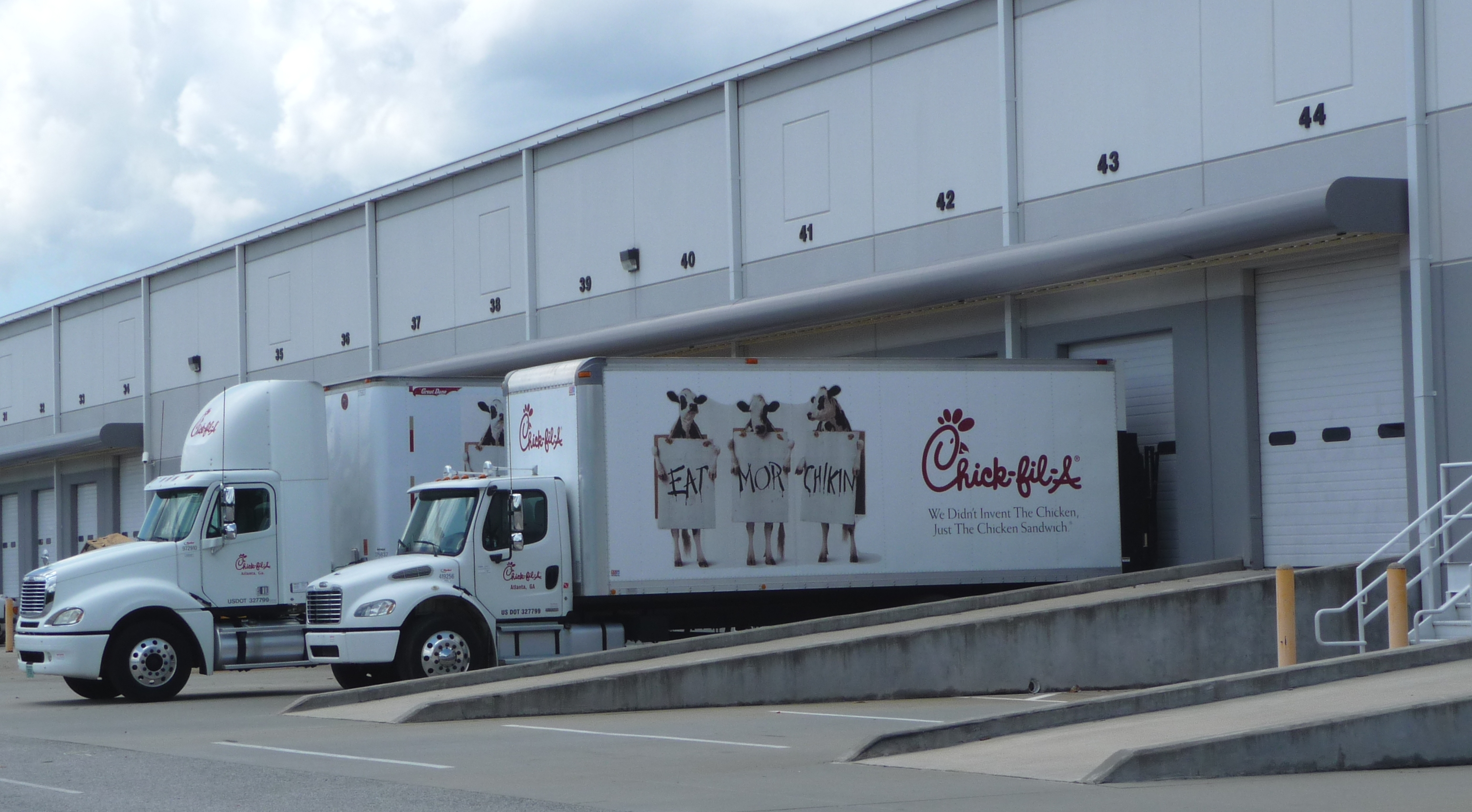 A series of Chick-fil-A trucks at the Airport West Distribution Center